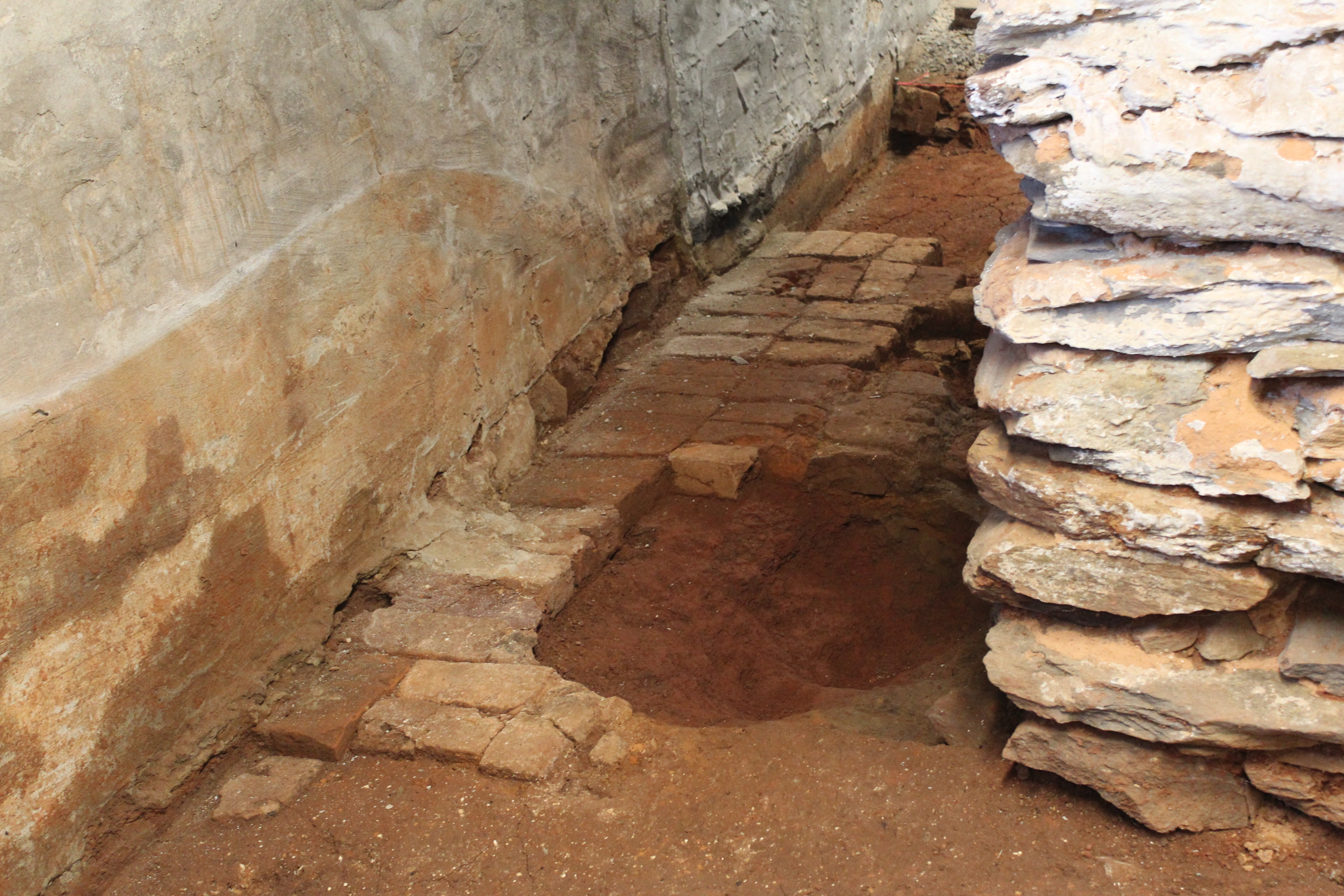 This photo shows the excavation taking place in the basement of Mead's Tavern - New London, Virginia